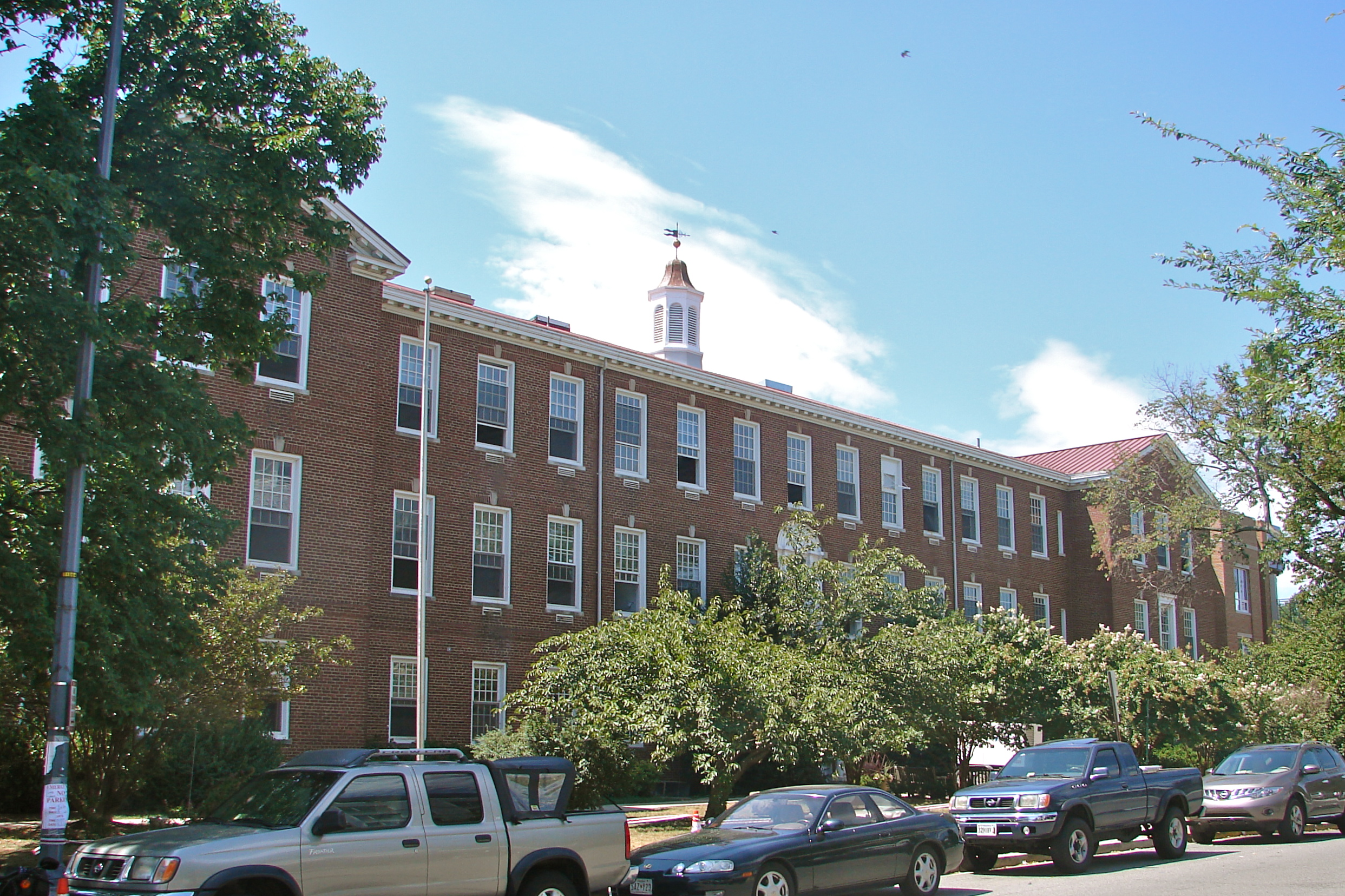 Janney Elementary School on the NRHP since May 10, 2010. At 4130 Albemarle St., NW. in the Tenleytown neighborhood of Washington, DC. Less than 100 yards from the Tenleytown metro station.